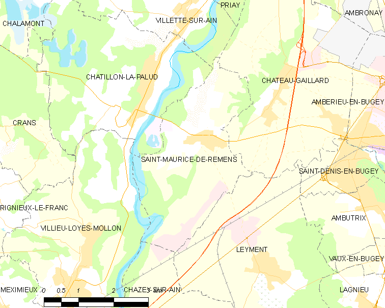 Map of French commune: Saint-Maurice-de-Rémens Map commune FR insee code 01379.png